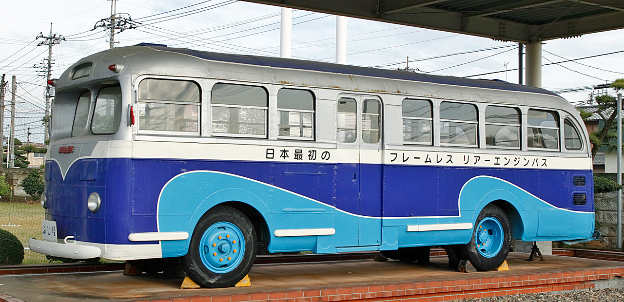 1954 Fuji Heavy Industry Fuji-go in Subaru Customise Kobo, of Isesaki-City Gumma, Japan.